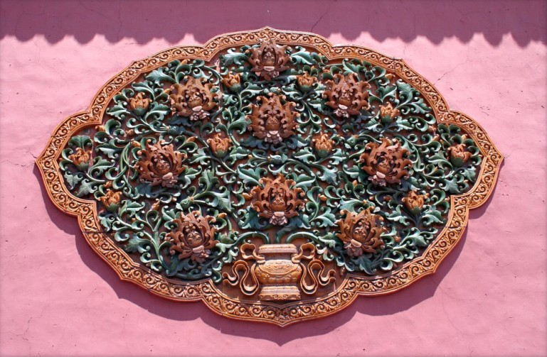 Glazed building decoration at the Forbidden City